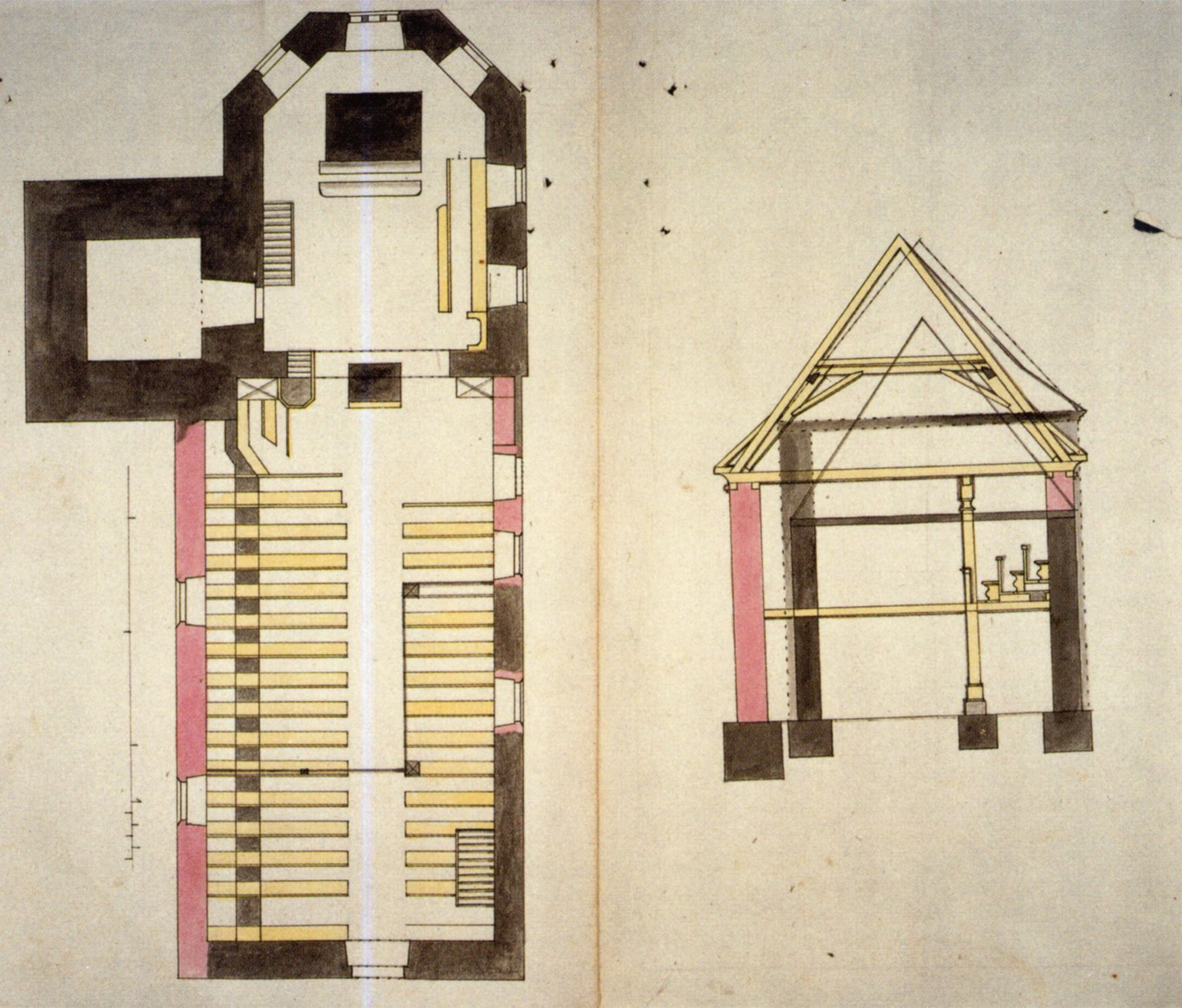 ground plan of the church St. Laurentius in Vogtsburg-Bischoffingen, Germany. Year of plan 1741